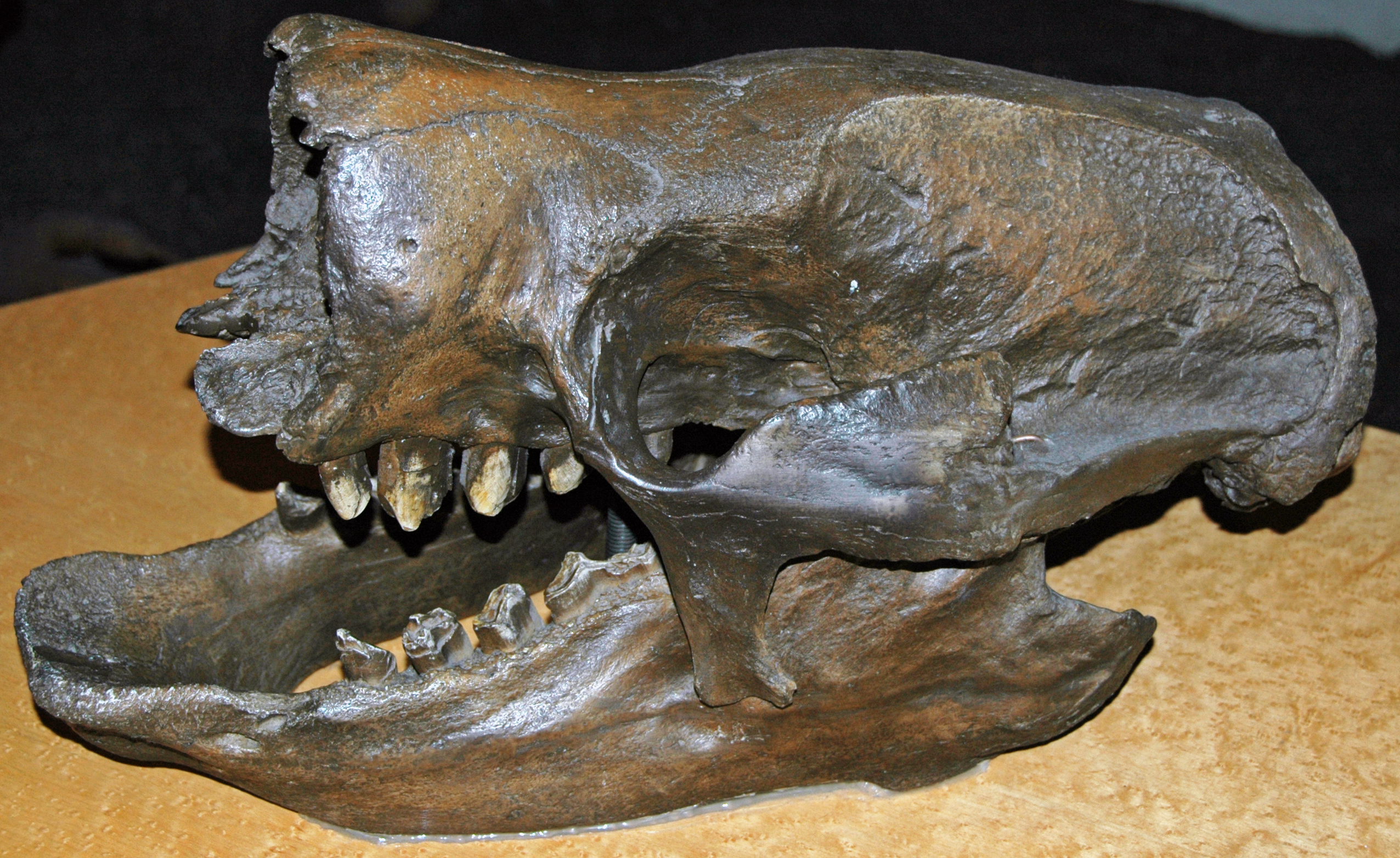 Paramylodon harlani Owen, 1840 - fossil Harlan's ground sloth skull. (public display, Cincinnati Museum of Natural History & Science, Cincinnati, Ohio, USA) Living sloths are medium-sized, very slow-moving, arboreal mammals of South America & Mesoamerica. During the middle & late Cenozoic, several large, ground-dwelling sloth species existed in the Americas. Shown here is one of the giant ground sloths known from the late Pleistocene of North America. This is Harlan’s ground sloth, Paramylodon harlani (a.k.a. Glossotherium (Paramylodon) harlani), whose body length reached two meters. Classification: Animalia, Chordata, Vertebrata, Mammalia, Xenarthra, Phyllophaga, Mylodonta, Mylodontoidea, Mylodontidae